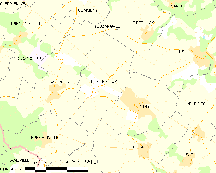 Map of French municipality Théméricourt